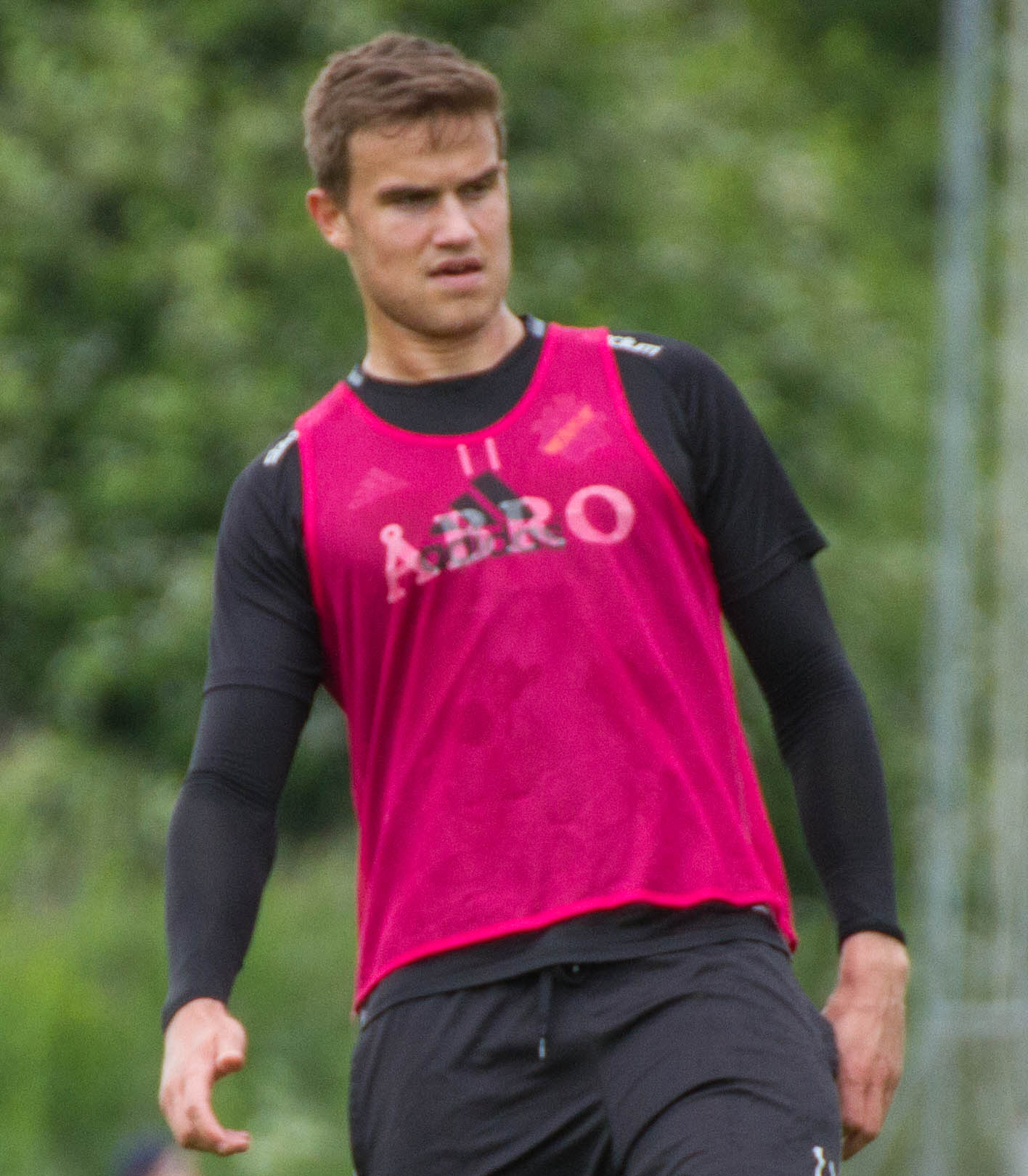 Eero Markkanen, AIK player, in May 2016.